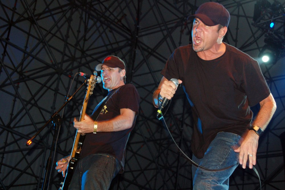 Pennywise @ Rock in Idro 03-09-06